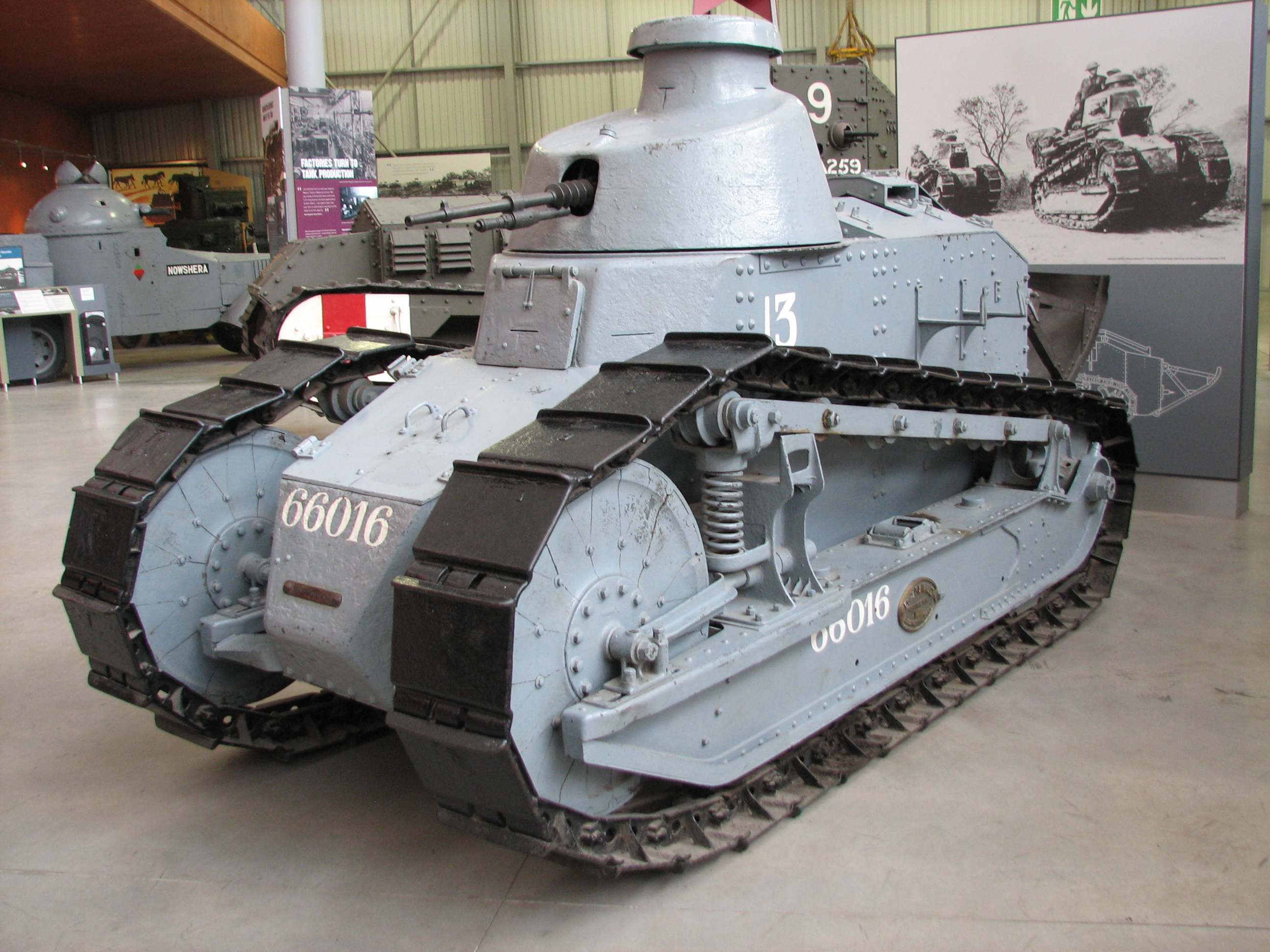 Renault FT at the Bovington Tank Museum (prototype turret).